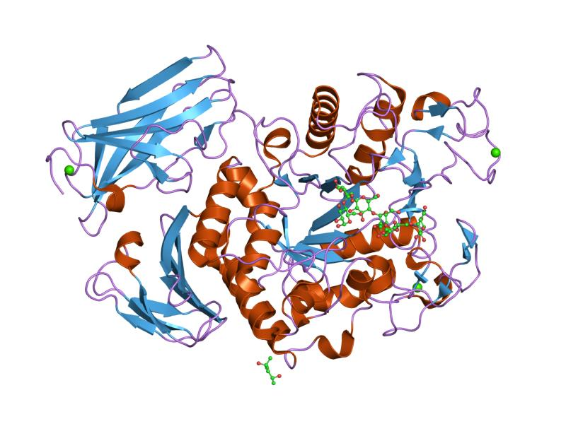 Cartoon representation of the molecular structure of protein registered with 2d0h code.